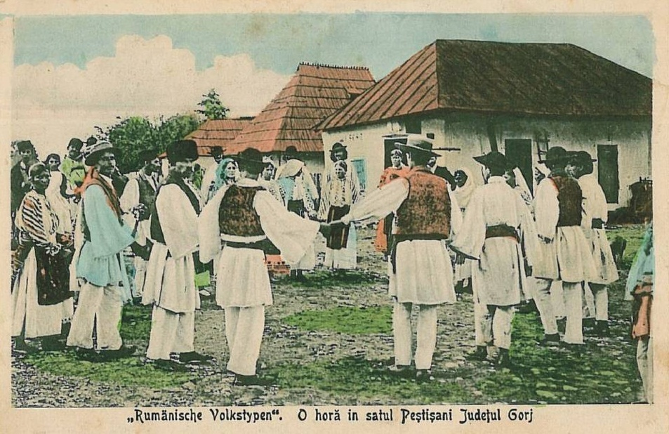 Hora in Romania